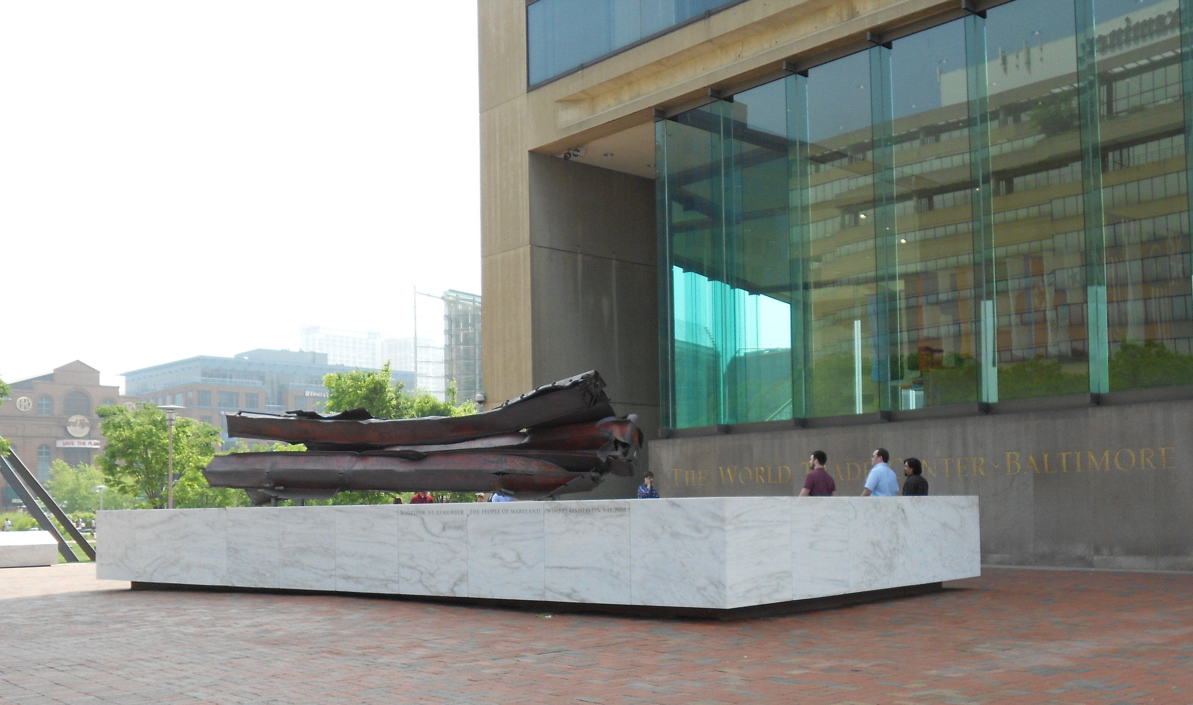 Memorial to the lives lost in the September 11, 2001 attacks, located in the plaza below the Baltimore World Trade Center